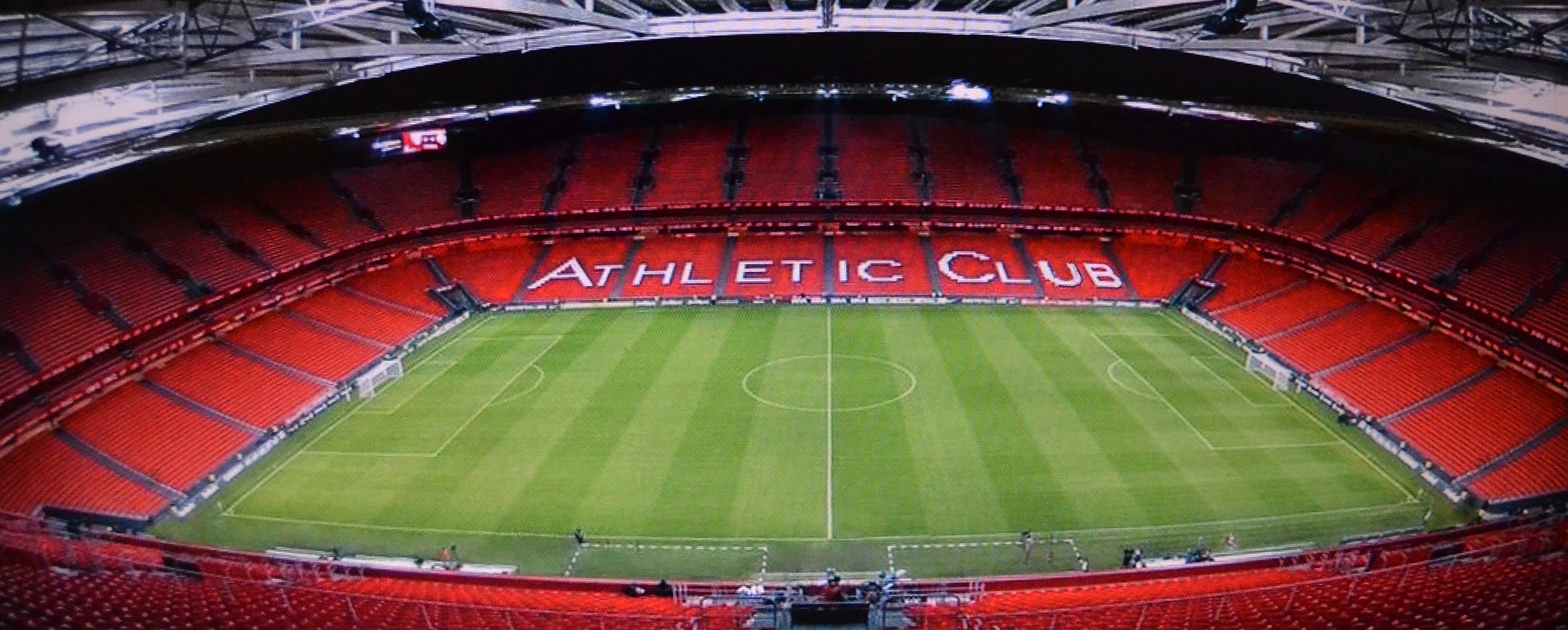 San Mames, Athletic Club. Bilbao, Bizkaia, Basque Country